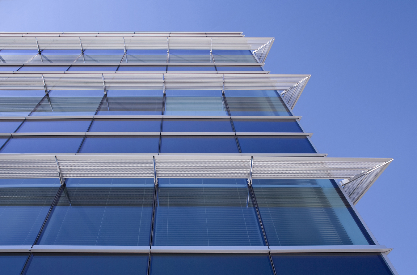 Green Office Building, Denver Colorado: EPA Region 8 Headquarters Day light and occupancy sensors, high efficiency window glazing, external shading and interior light shelves, and reduced power use for lighting based on more efficient, open workspace floor plans all contribute to energy savings. Source: Faux Stone Panels To find out more about the Region 8 green building sustainable design and operations .